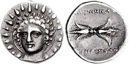 Ancient Greek coin of Alexander I of Epirus Greece. Calabria, Tarentum. Alexander the Molossian. King of Epeiros, 350-330 BC. AR Diobol. Struck circa 333-331/0 BC. Radiate head of Helios facing slightly left / ALEXANDROU TOU NEOPTOLEMOU, thunderbolt.